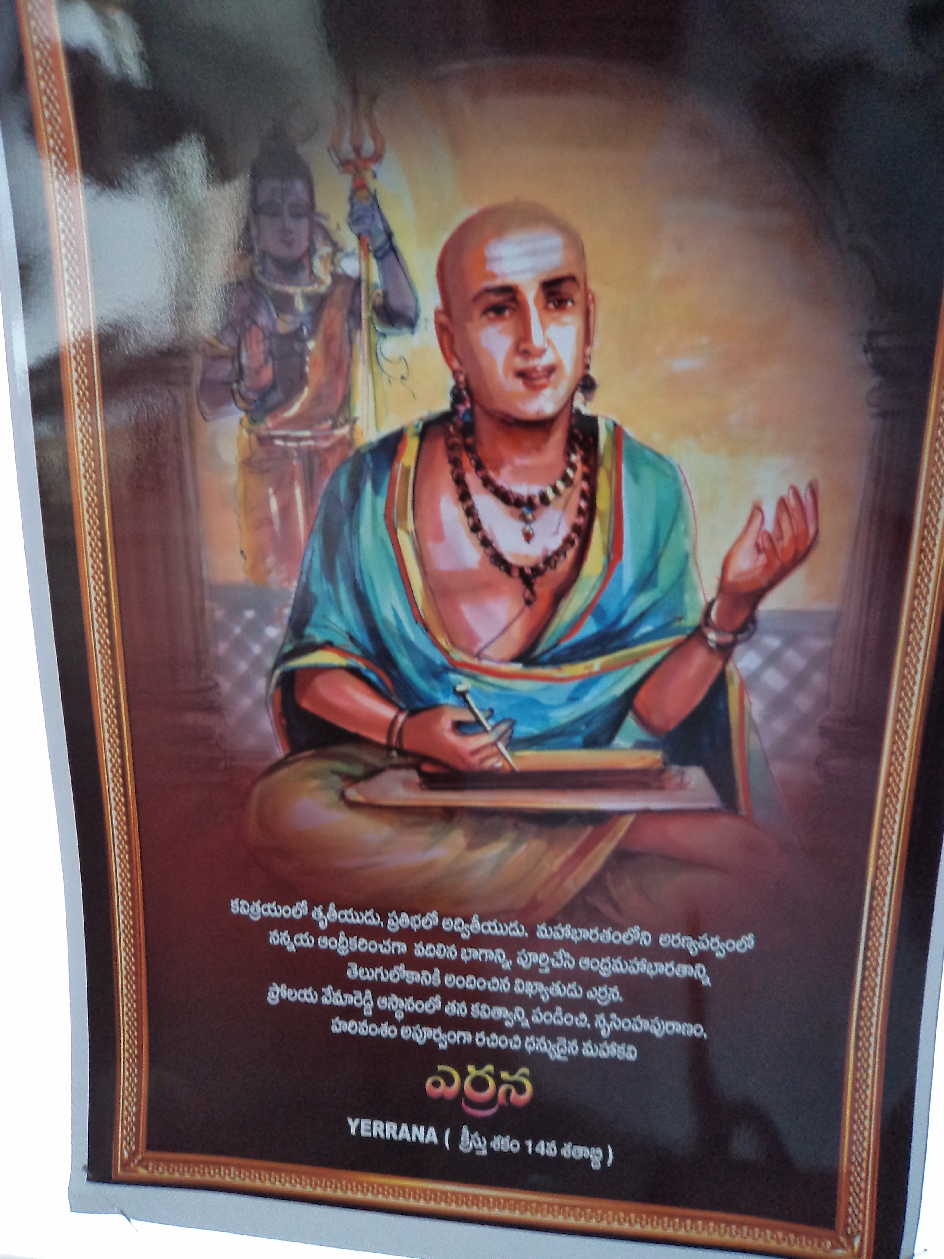 Portrait of Errana